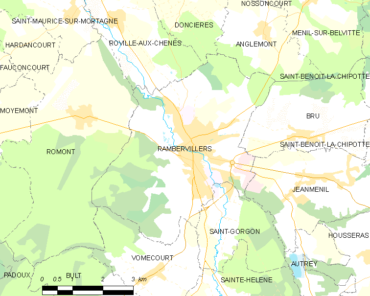 Map of French municipality Rambervillers